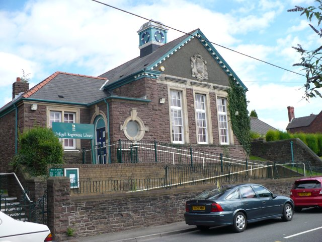 Rogerstone Original description: Rogerstone Library The inscription above the windows is "Carnegie Free Library 1905".